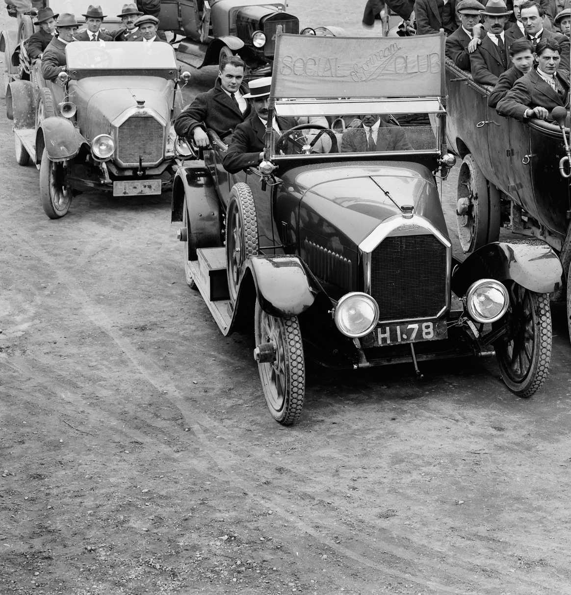 Here is the O'Gorman Bros. Social Club at Tramore Railway Station Crop of File:Wacky Races? (9030154309).jpg